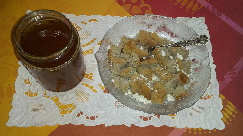 Homemade homemade pot and honey